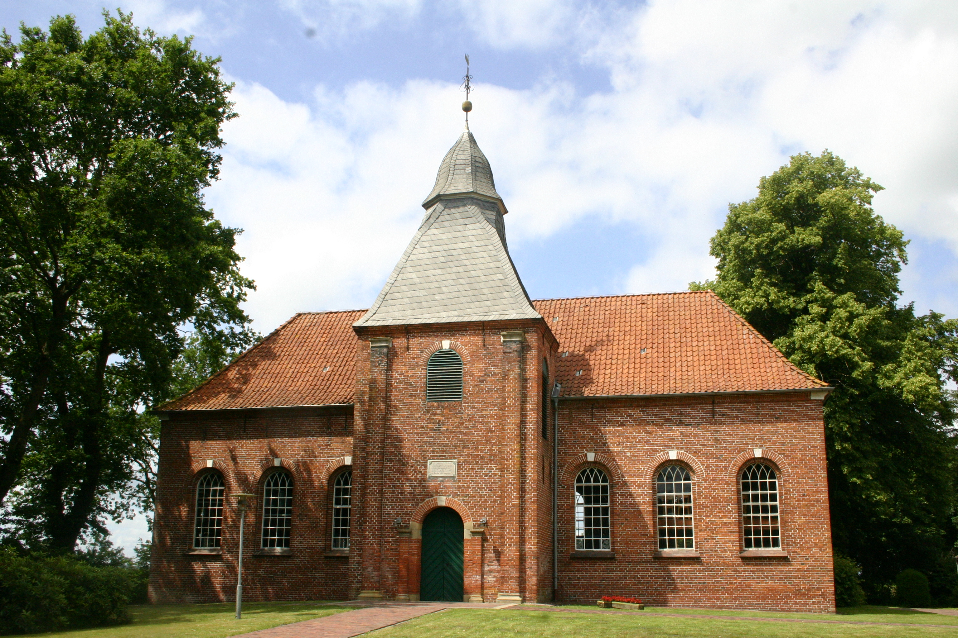 Historic Maria Magdalena Church in Hatshausen, district of Leer, East Frisia, Germany